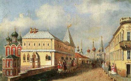 Варварка и Зарядье с палатами бояр Романовых в 19 веке Varvarka Street and Zaryadye with the Chambers of the Romanov boyars in the 19 century